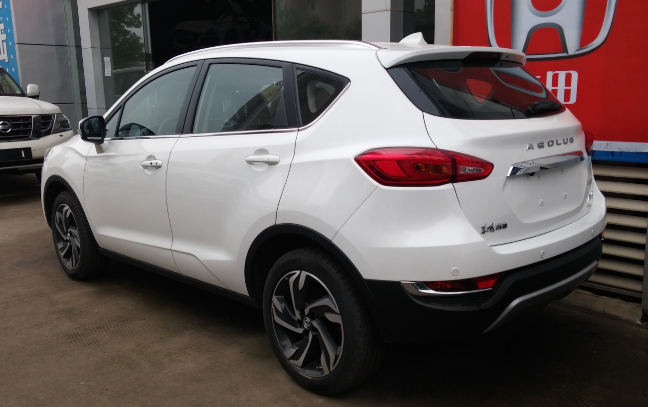 Dongfeng Aeolus AX5 photographed in Wuhan, Hubei province, China.